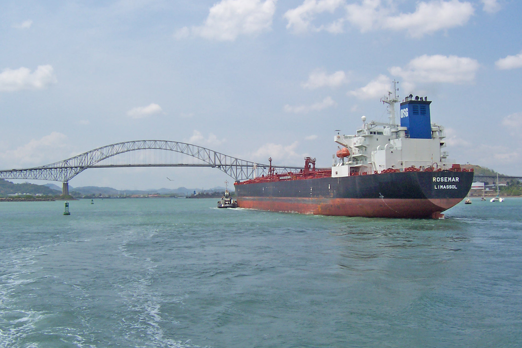 Bridge of Americas